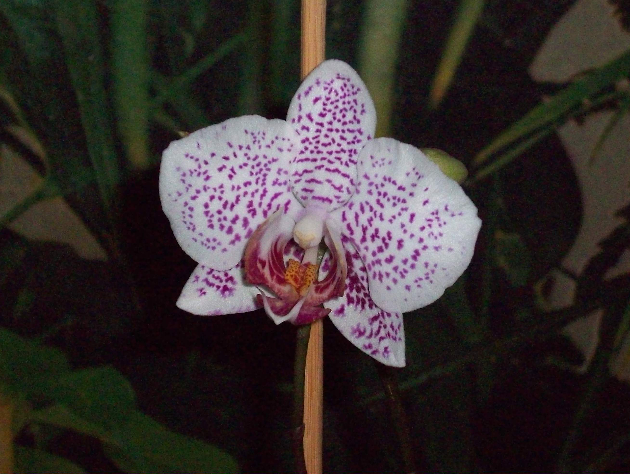 Phalaenopsis cultivar